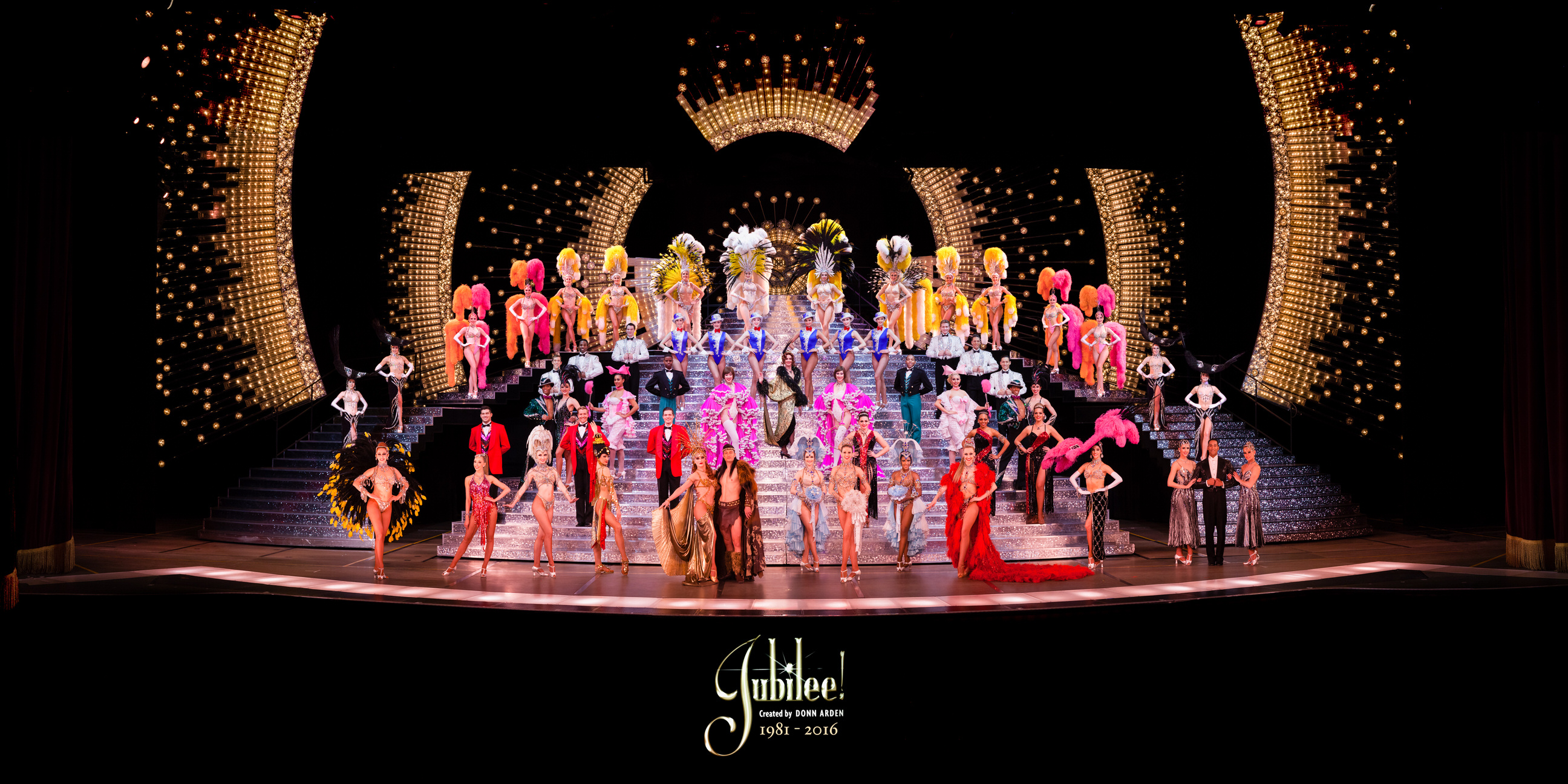 Final cast photo showcasing some of the costumes from the show